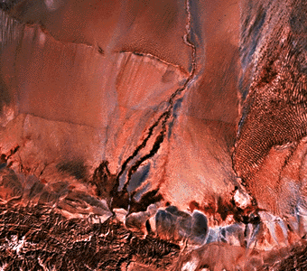 Image of the Khotan River taken from space.